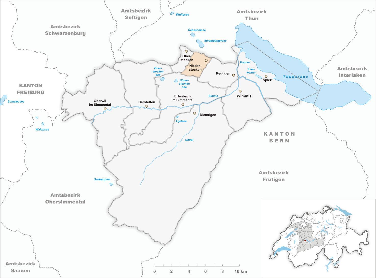 Municipality Niederstocken